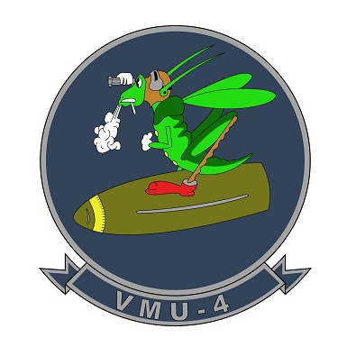 Squadron insignia for USMC squadron VMU-4